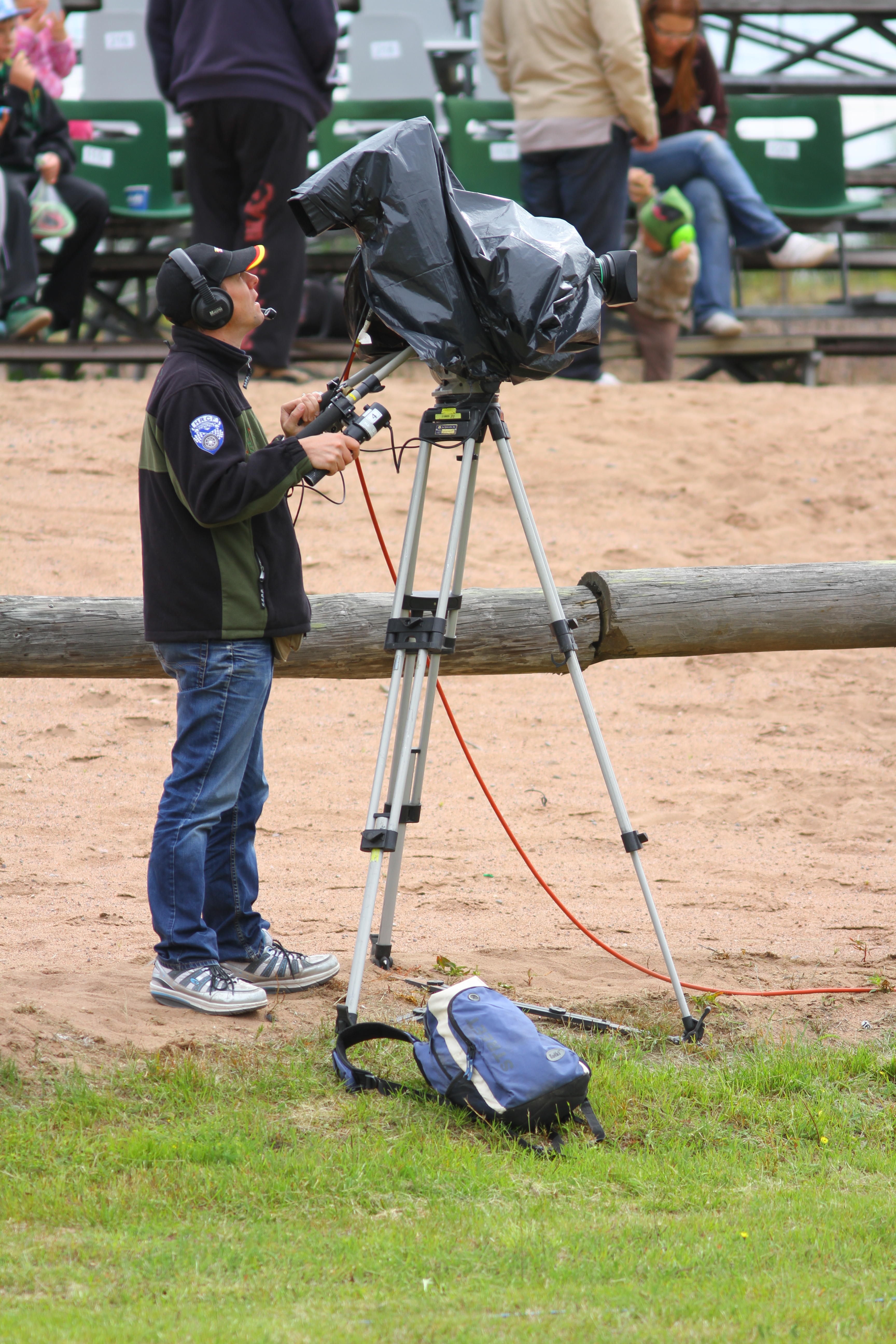 FHRA Kamasa Drag Race Week at Alastaro Circuit, Finland.